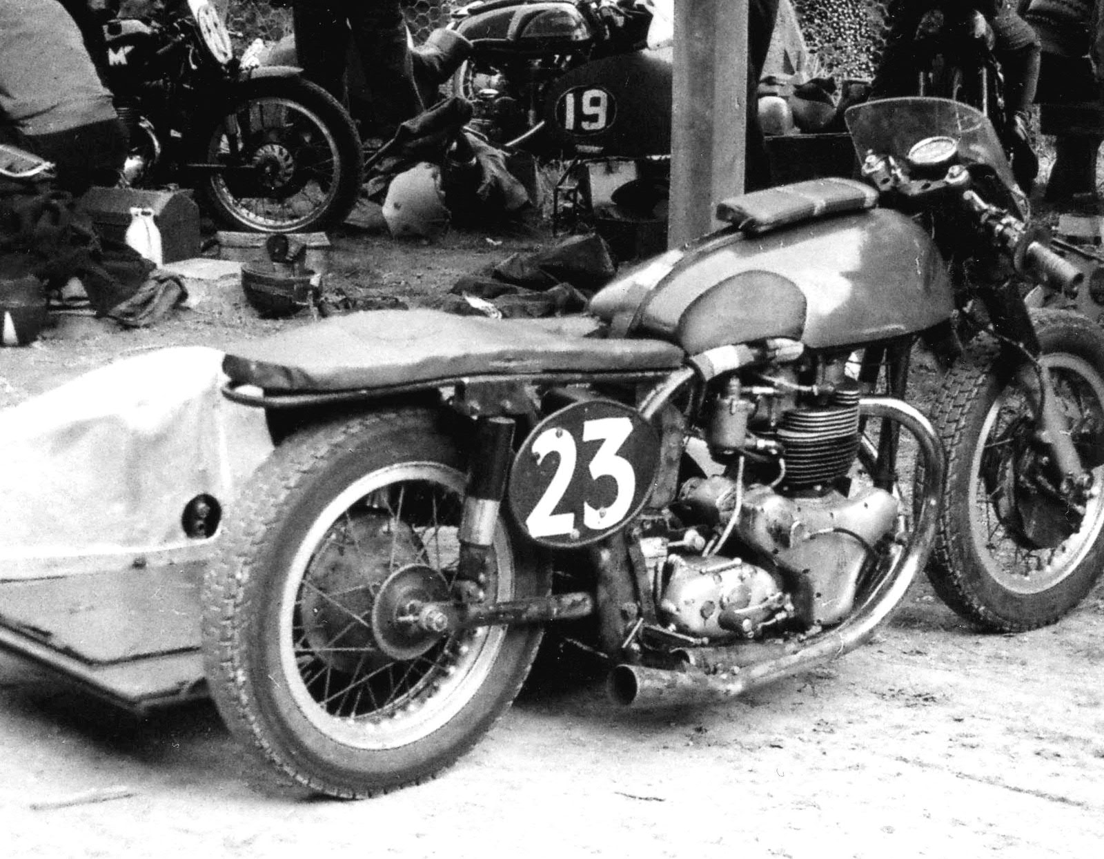 Chris Vincent's 1958 National Championship-winning NorBSA grasstrack sidecar outfit. A Manx Norton powered by a BSA A10 engine and gearbox. The outfit was lowered by using 16 inch wheels instead of 19, but the road-race origins remain clear, being still fitted with clip-on handlebars and rear-set foot-rests. Nortons with BSA engines were known as Norbsa, NorBSA and sometimes Nor-Beesa.